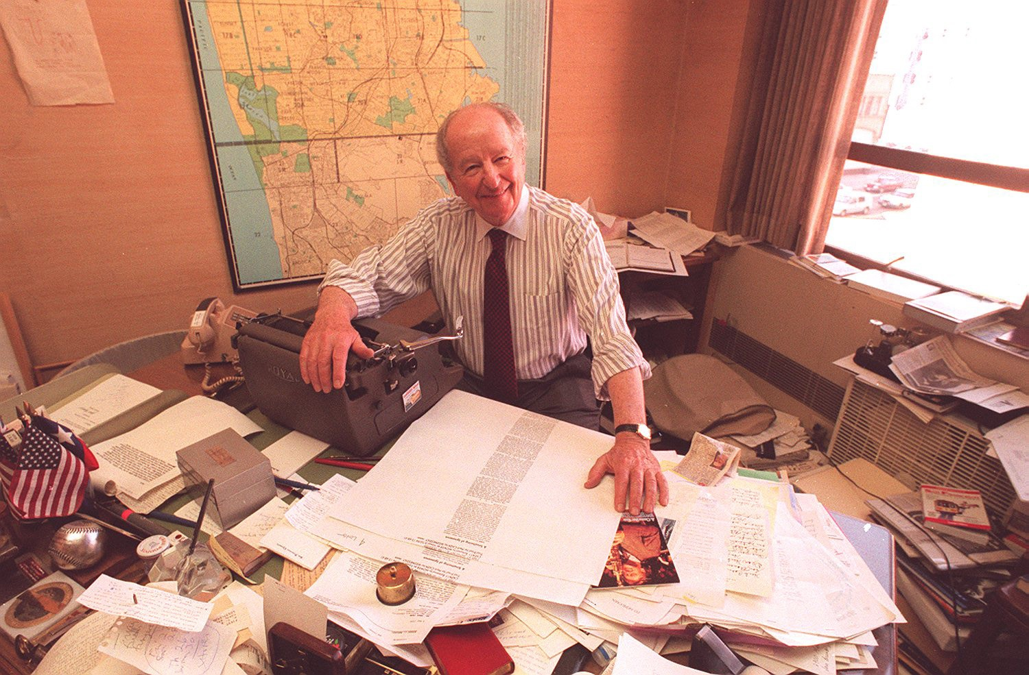 Newspaper columnist Herb Caen in his San Francisco Chronicle office, 901 Mission Street, 1994.